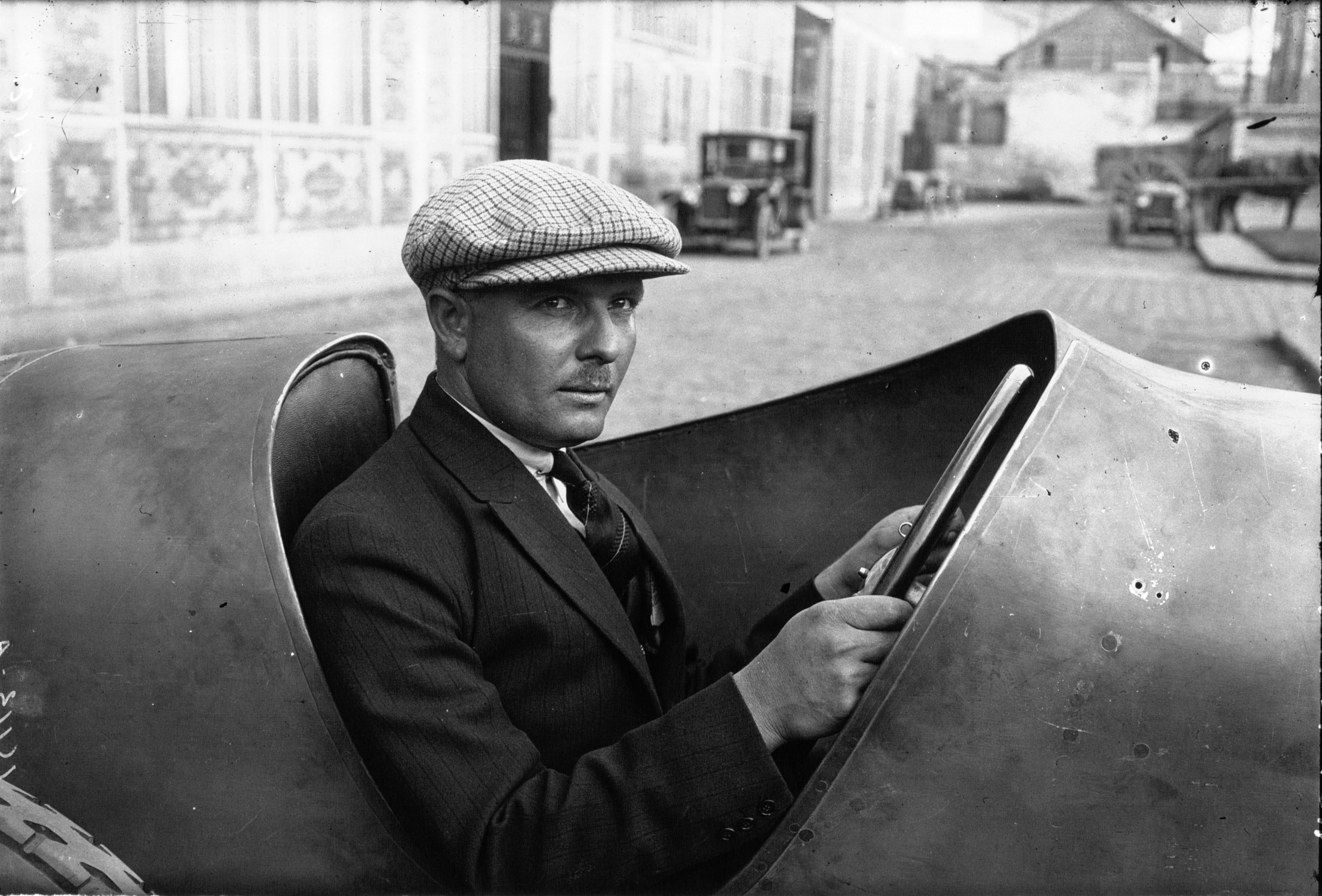 Albert Divo at the 1924 French Grand Prix